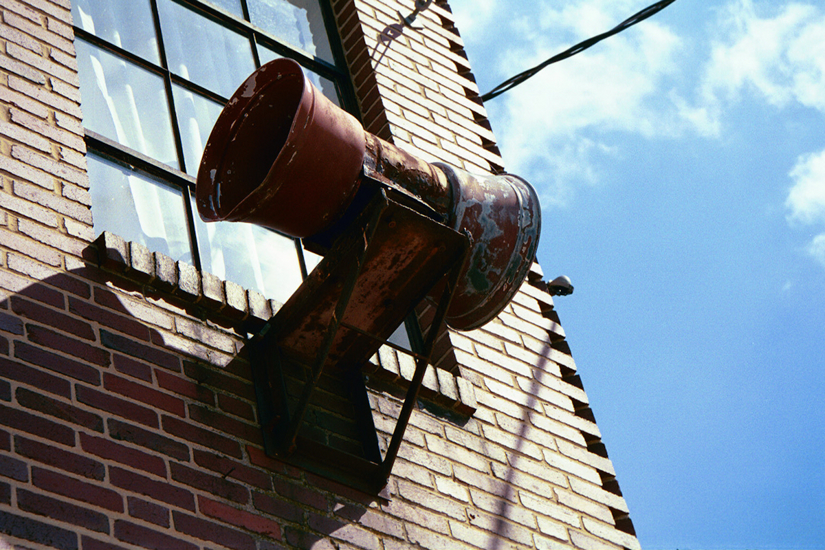 Mount Jackson Historic District, Main ST, Mt. Jackson Volunteer Fire Department (1936)